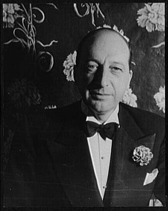 Title: Portrait of Dwight Fiske Abstract: 1 photographic print : gelatin silver.